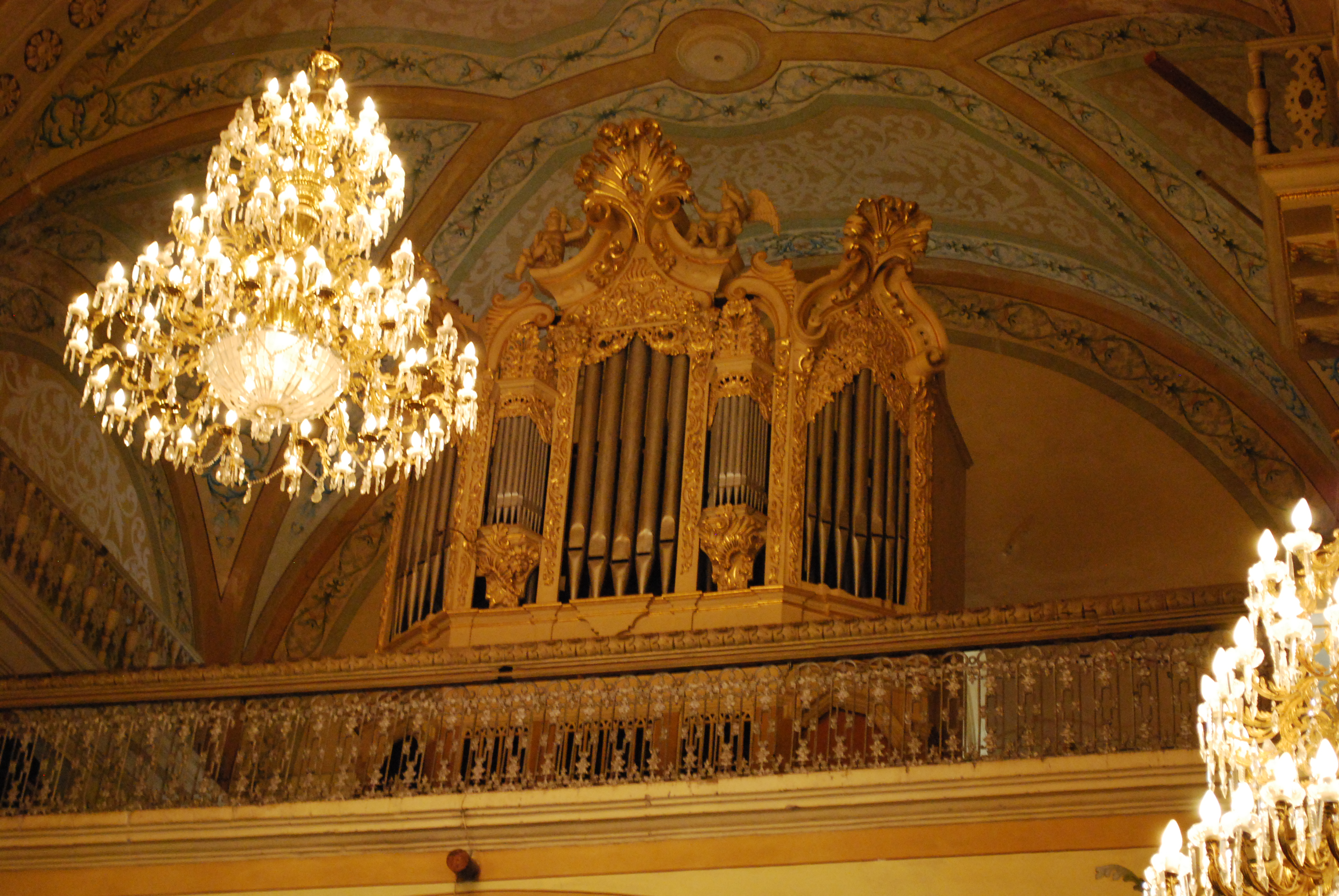 View of the organ at the Basilica of Guanajuato in Guanajuato, Mexico